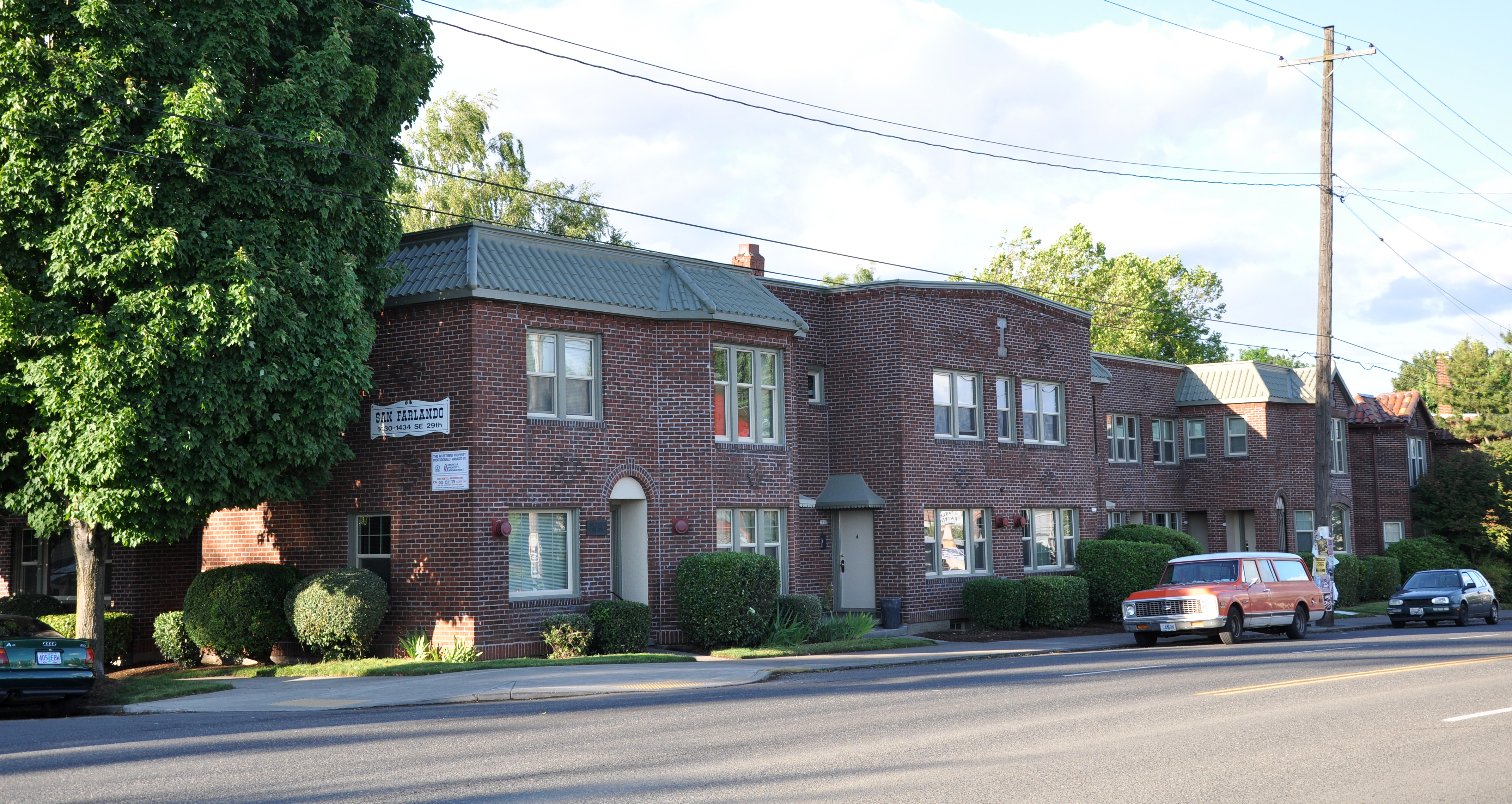 San Farlando Apartments in Portland in the U.S. state of Oregon. The structure is listed on the National Register of Historic Places.